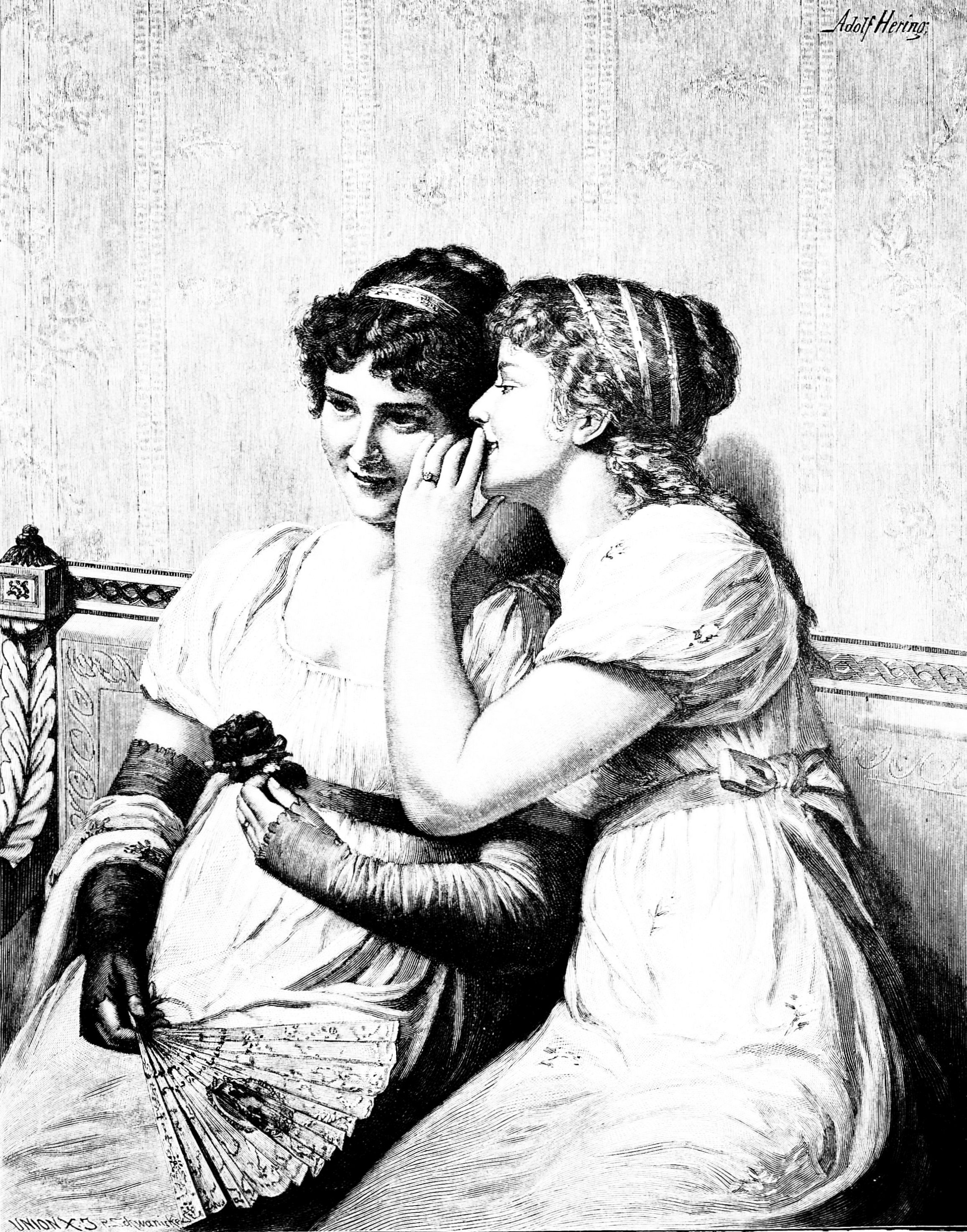 no caption